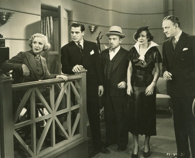 Left to right: Claudia Dell, Jack La Rue, Vince Barnett, Eleanor Hunt, and Conrad Nagel in Yellow Cargo (1936) aka Sinful Cargo - publicity still (cropped)